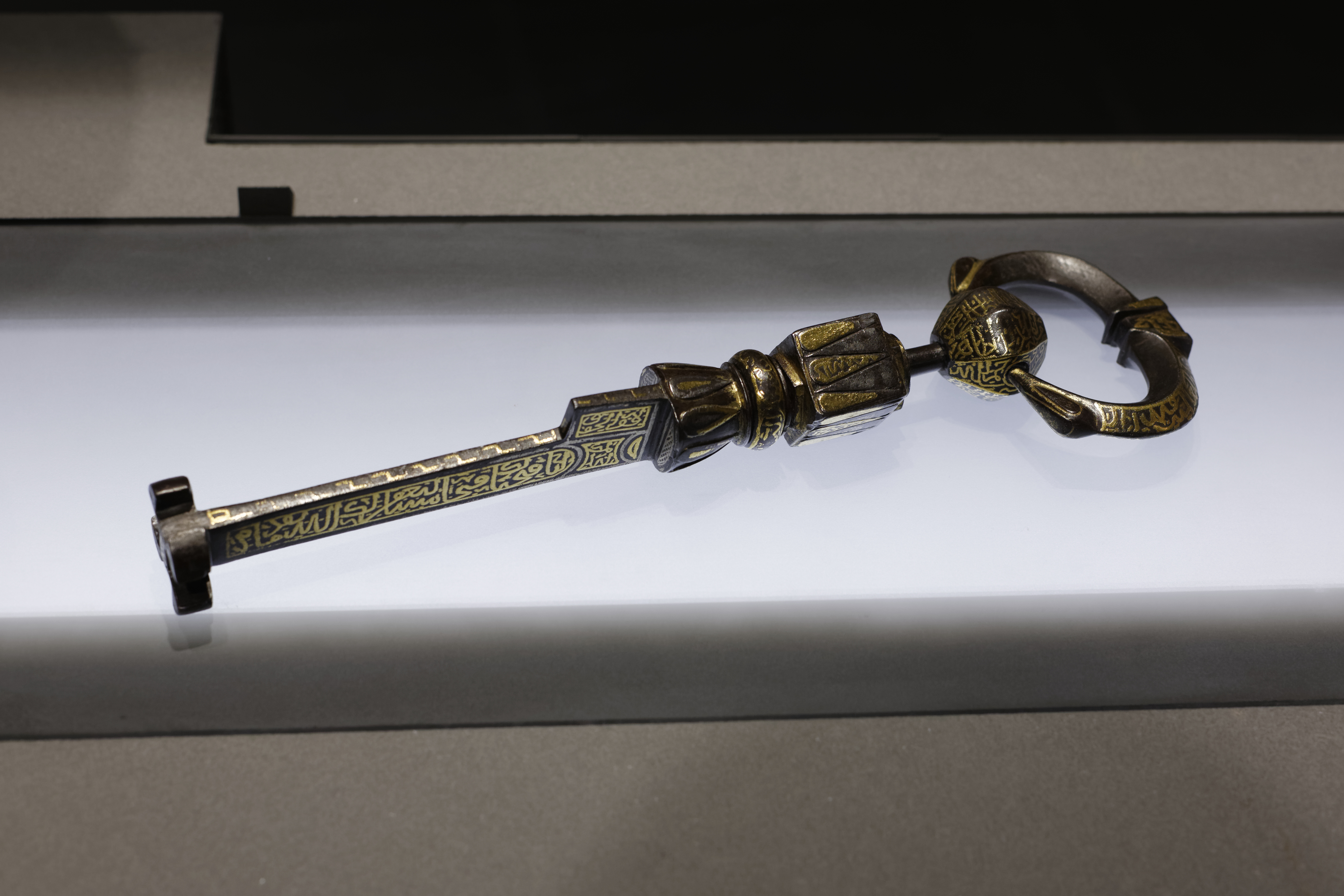 Key bearing the name of Sultan Faraj ibn Barkuk. Iron with gilded and silver inlaid decoration, Egypt, early 15th century.